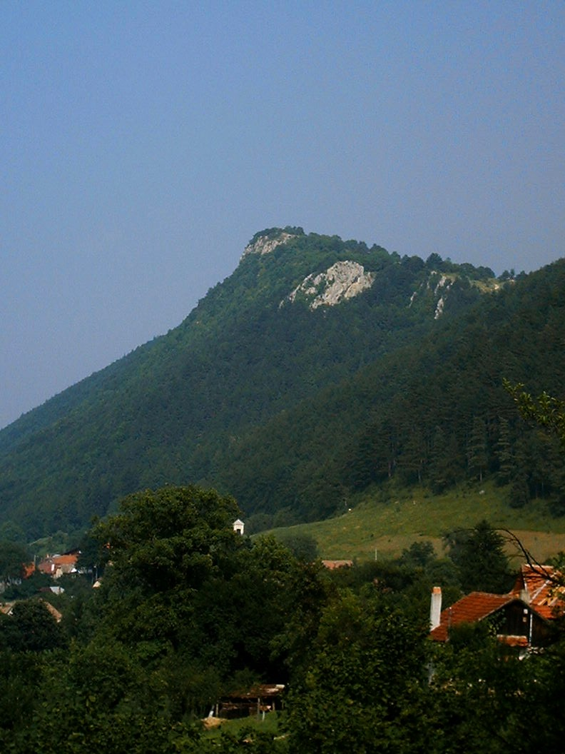 The Tâmpa mountain from Braşov (Kronstadt), Romania